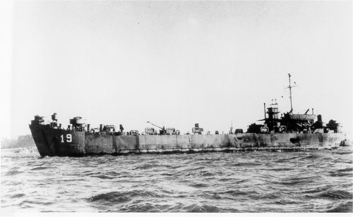 USS LST-19 at anchor in San Francisco Bay, circa 1945-46. US Navy photo # NH 82162 courtesy of Donald M. McPherson, 1975; Naval Historical Center.